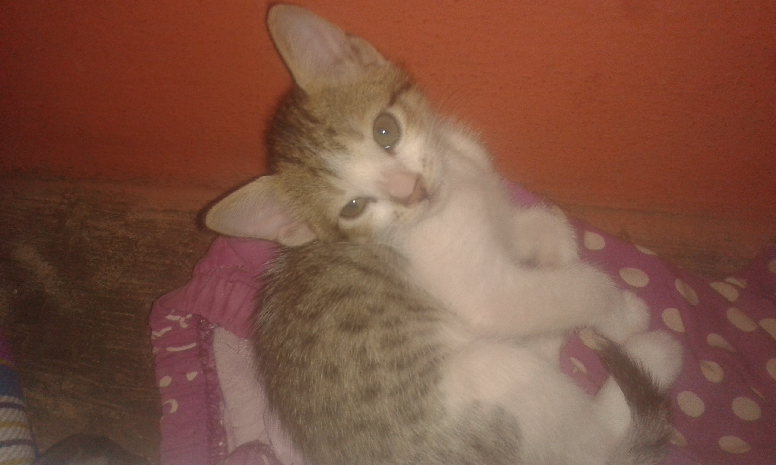 my cat sweet cat